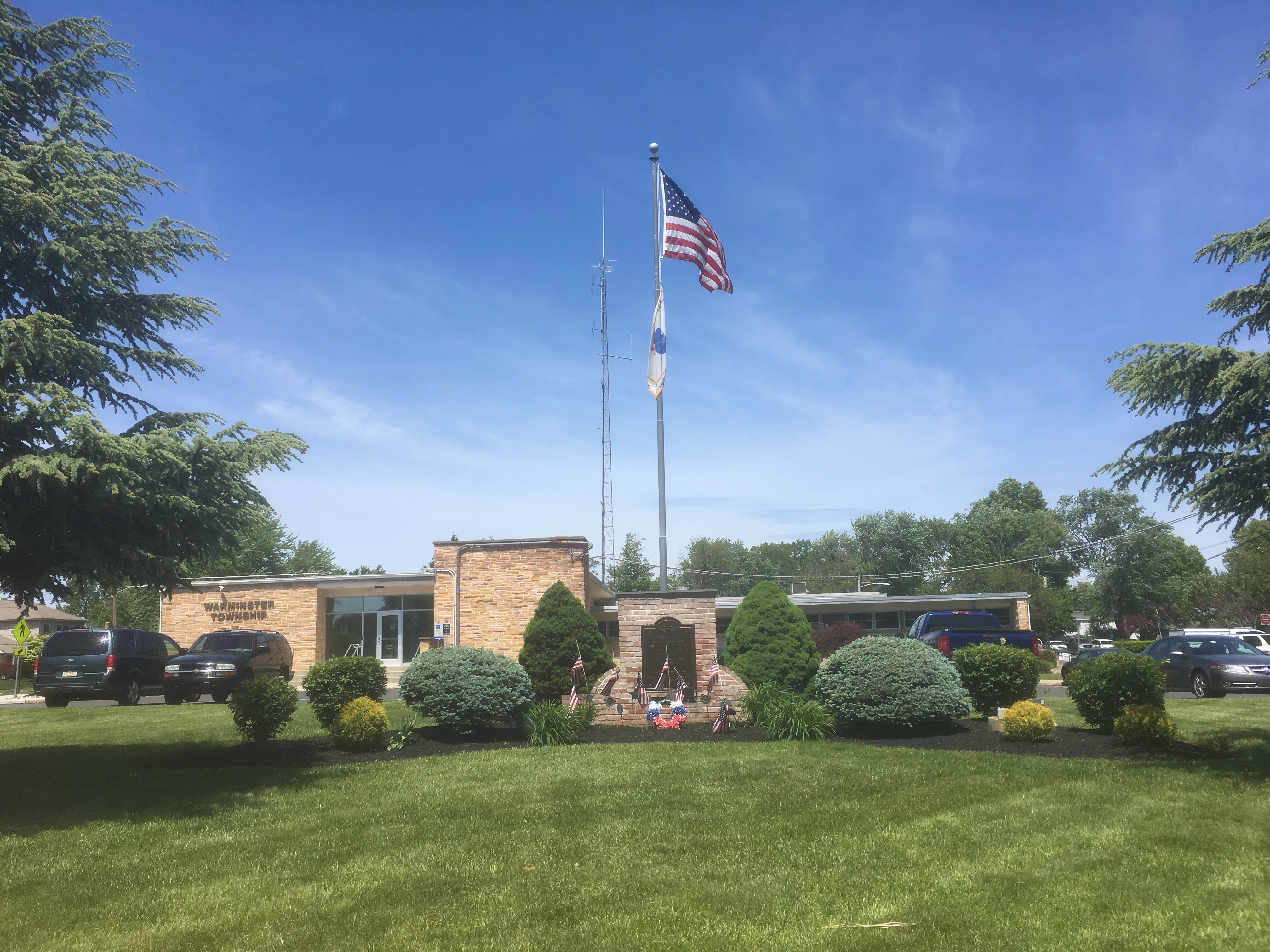 The municipal building in Warminster Township, Bucks County, Pennsylvania